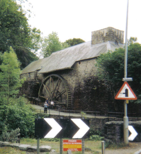 Dyfi Furnace, Cardiganshire. The waterwheel dates from a later period when the building was used as a sawmill.